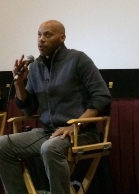 John Ridley at the San Diego Film Festival 2013.